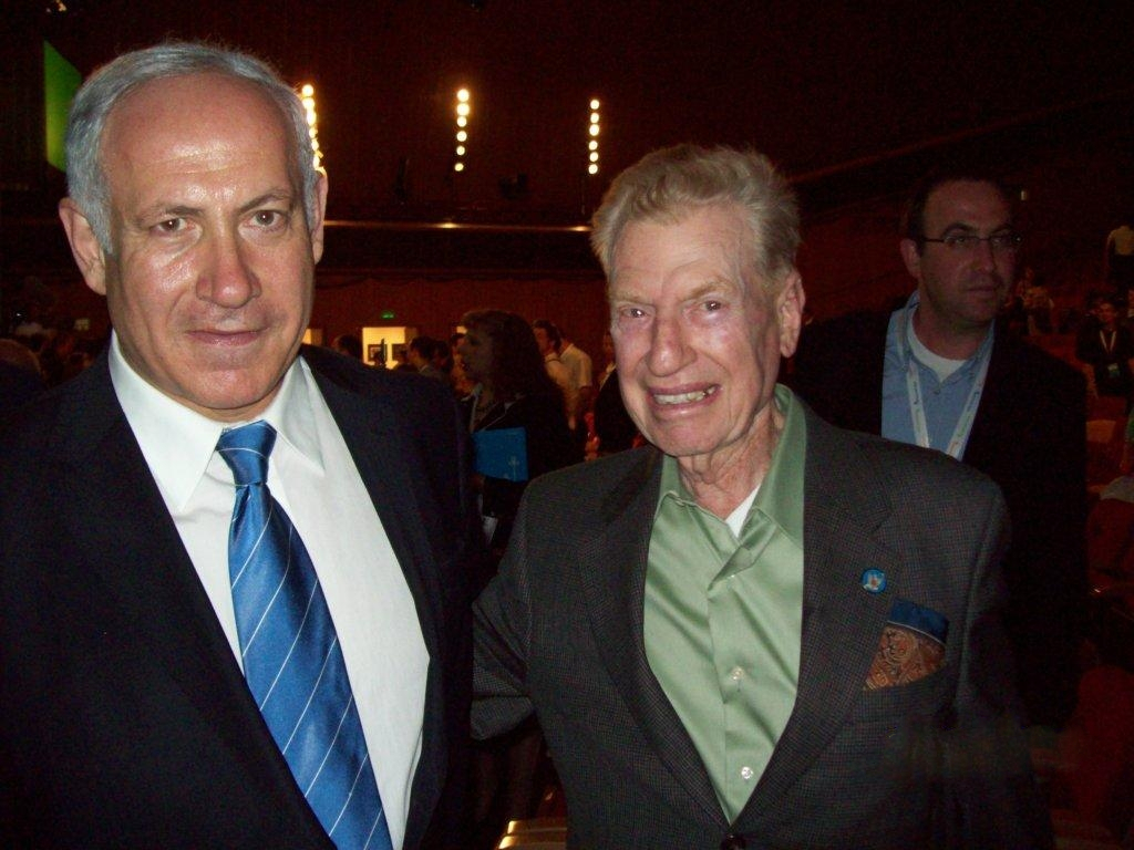 Israel 60th (115) Benjamin Netanyahu with Mitchell Flint